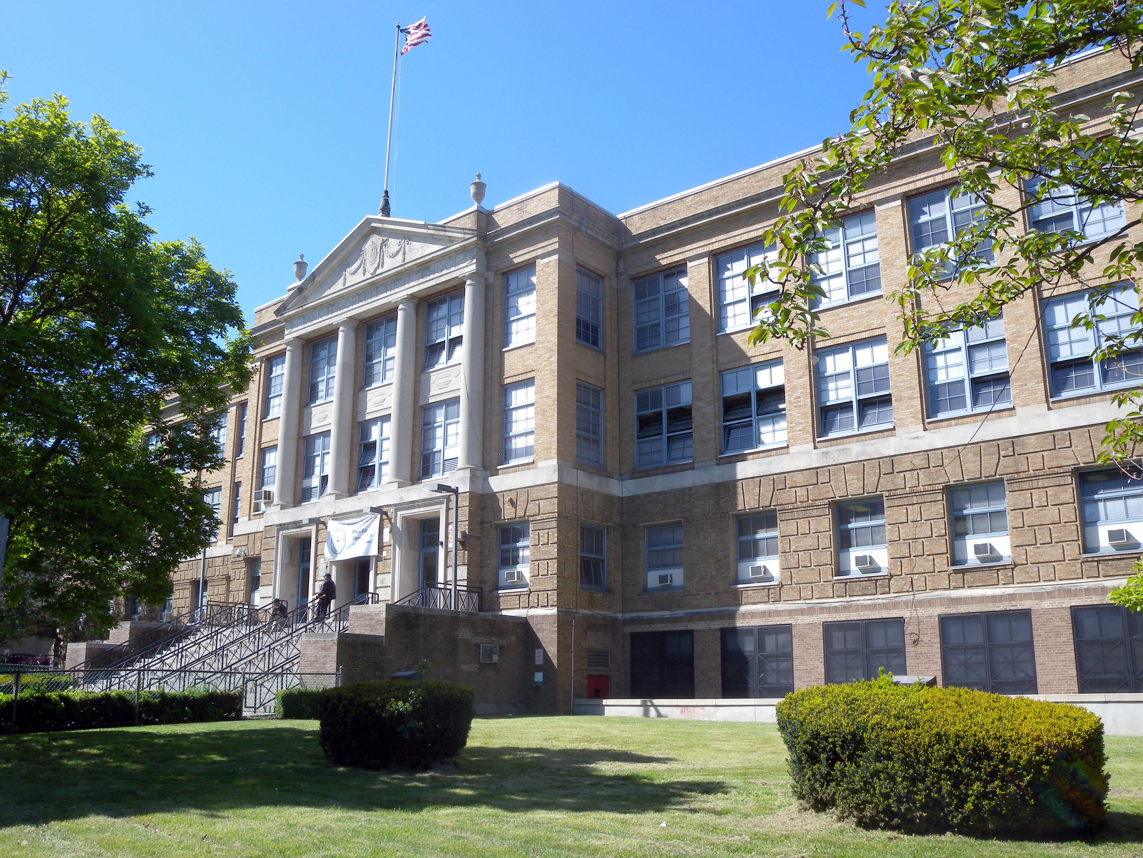 Looking northwest at Morrell High on a sunny early afternoon.